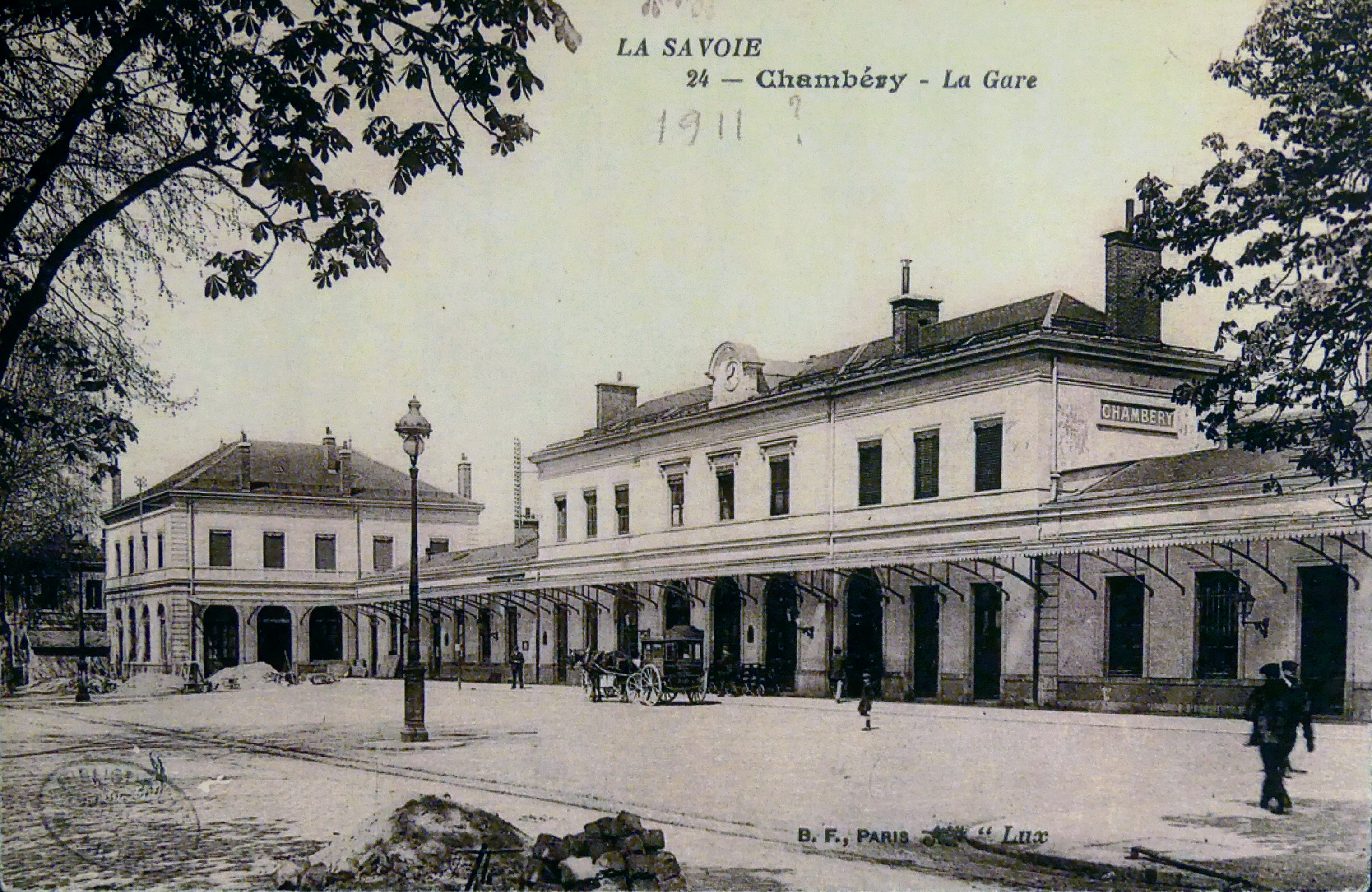 Historical sight of Chambéry railway station after the construction of the northern building visible on the left, in 1906, in Savoie, France.